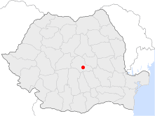 Location of Codlea in Romania.